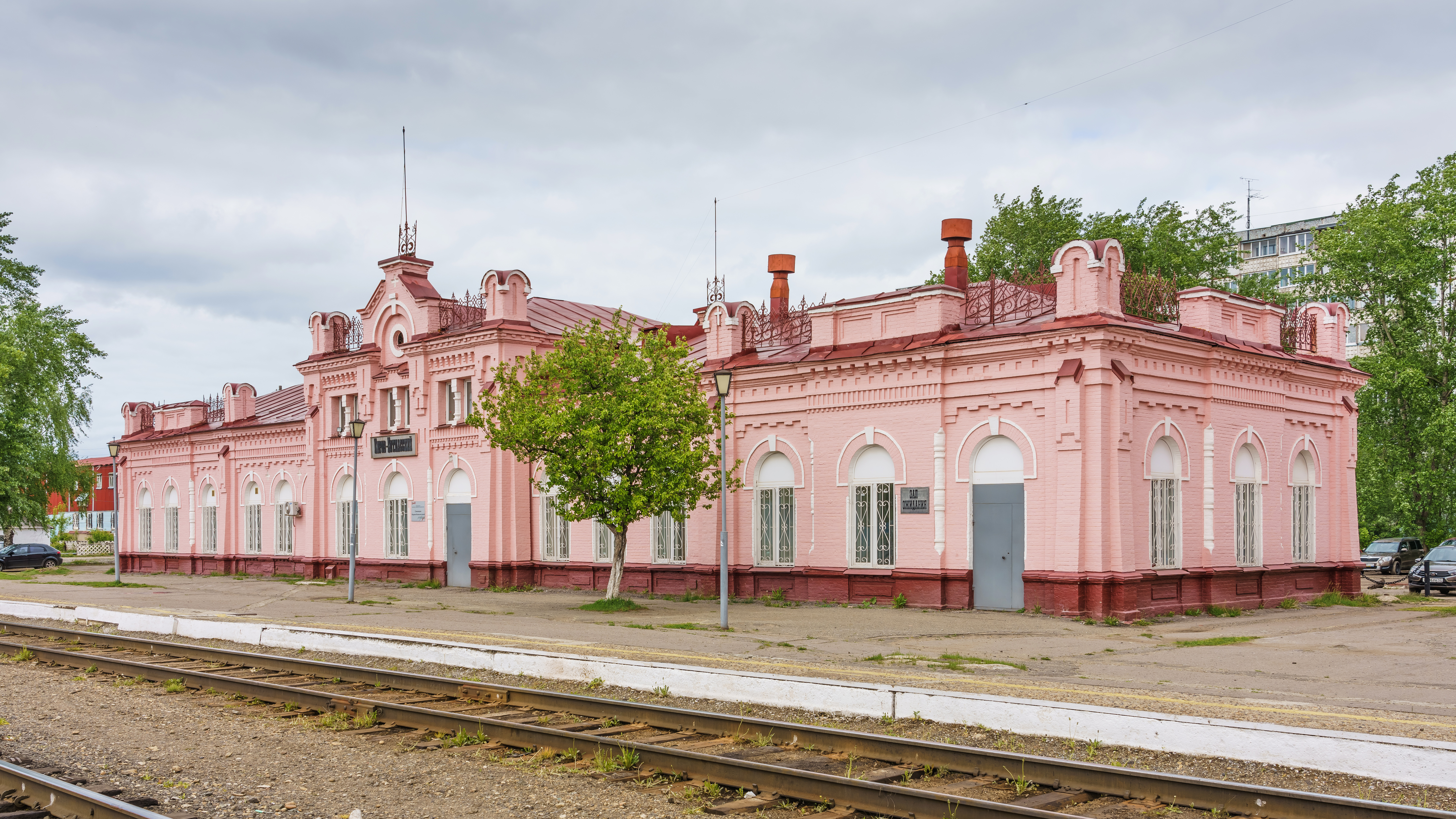 Kotlassky railway station in Kirov, Russia